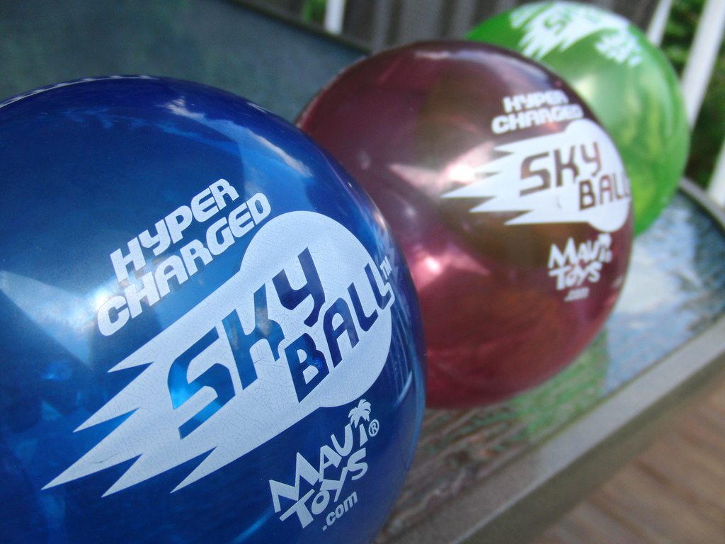 Skyball by Maui Toys ... the SuperBall for a new generation. Contains helium + highly pressurized air.